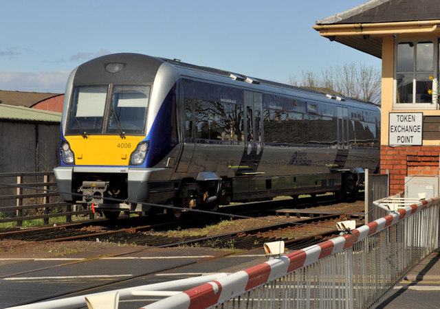 Level crossing, Coleraine (7). The 12.00 Coleraine � Portrush (4006) has just passed over the level crossing at the northern end of Coleraine station.